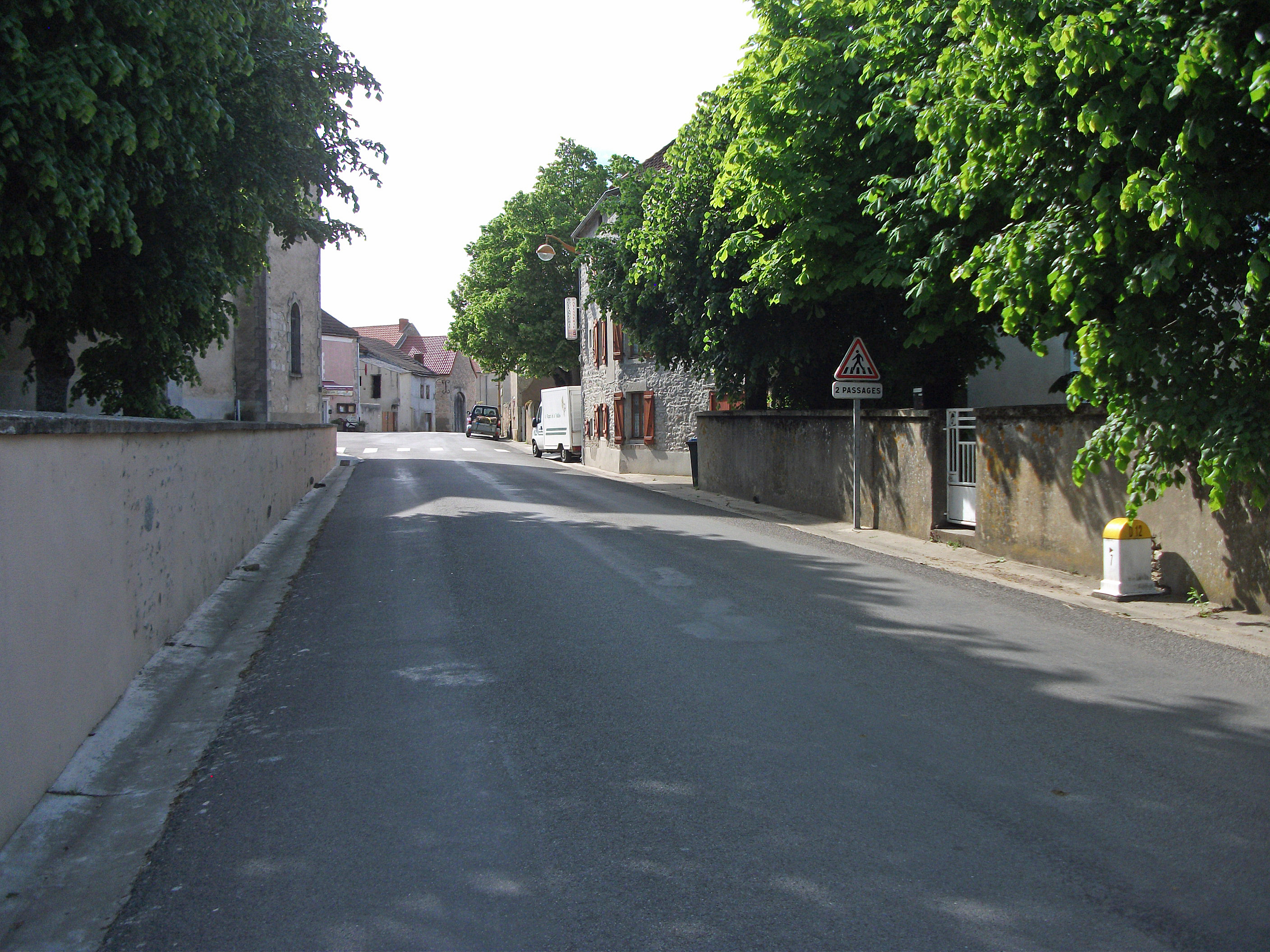 Departmental road 12 in Saint-Agoulin, Puy-de-Dôme, Auvergne-Rhône-Alpes, France, direction Combronde and Ébreuil [10861]